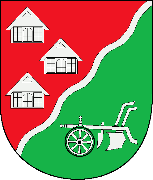 Coat of arms of the municipality Nienbüttel in Schleswig-Holstein, Germany.